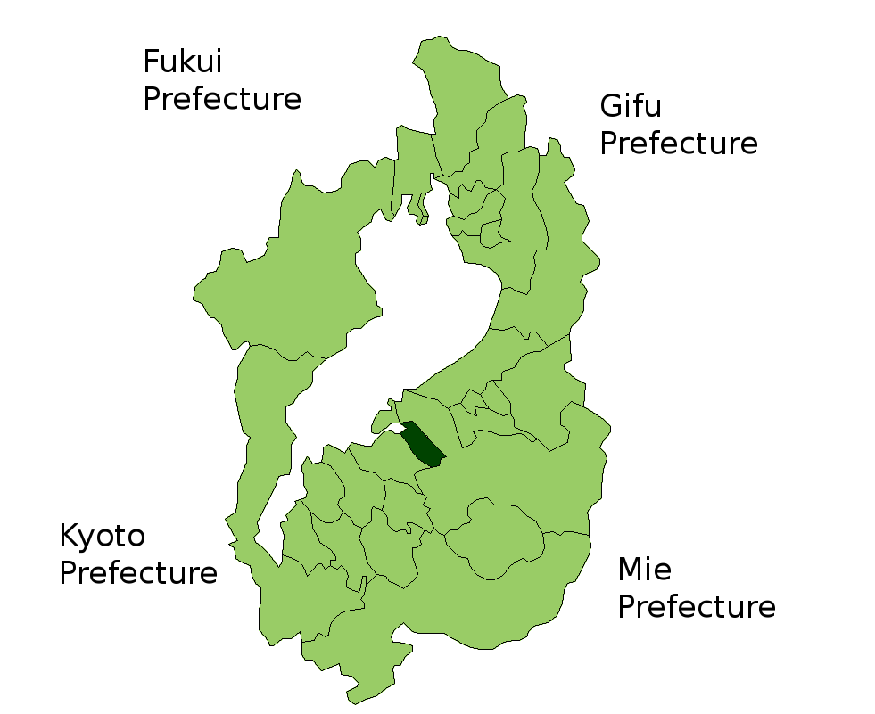 Location Map of Azuchi in Shiga Prefecture, Japan